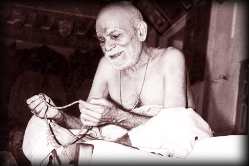 Yogiji Maharaj doing mala.